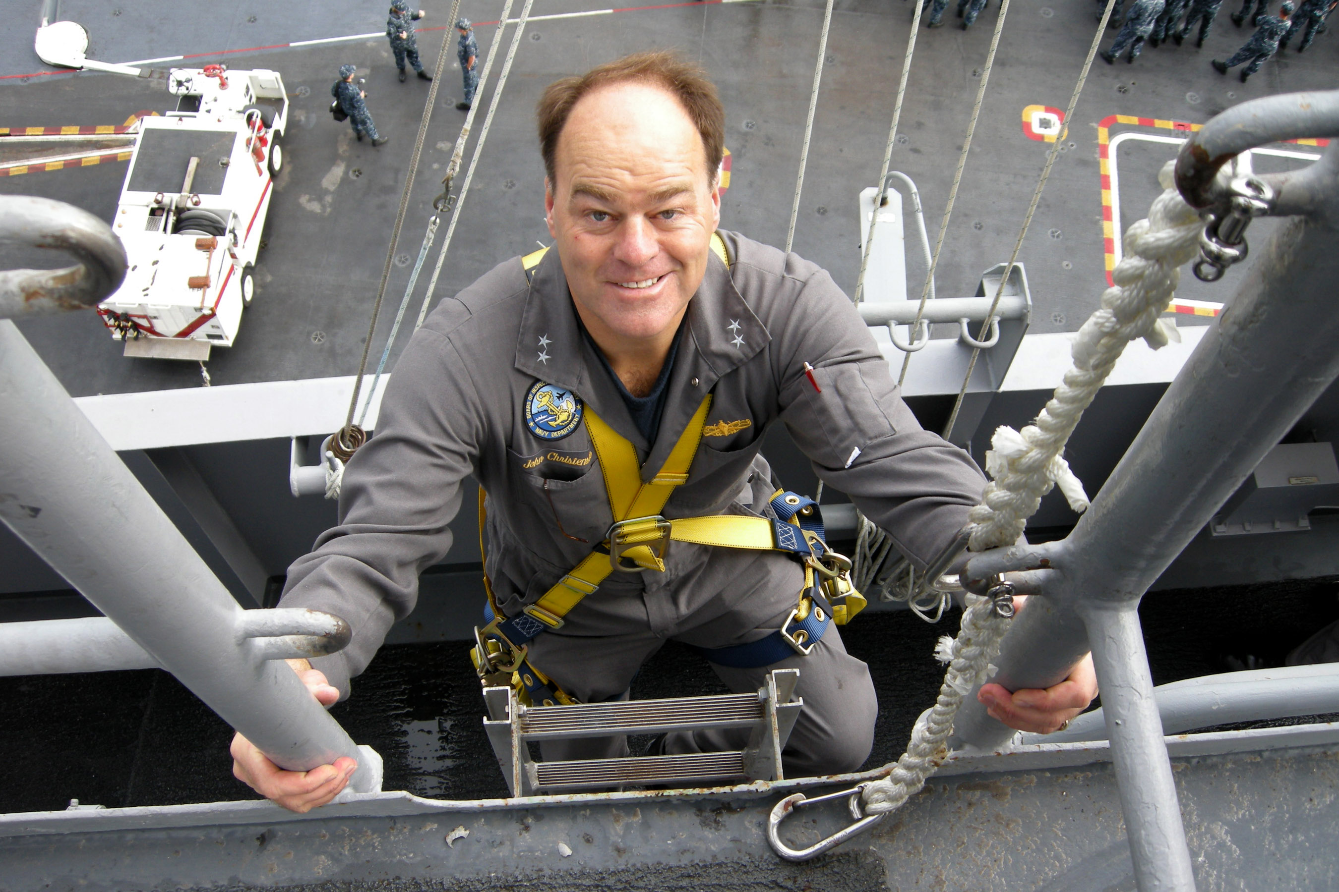 SAN DIEGO (Oct. 20, 2010) Rear Adm. John N. Christenson, president of the Naval Board of Inspection and Survey (INSURV), climbs a ladder well to inspect the mast of the aircraft carrier USS Carl Vinson (CVN 70). Carl Vinson is conducting INSURV, a five-day ship-wide evaluation to gauge material readiness and determine whether the ship is ready for deployment. (U.S. Navy photo by Cmdr. Gerald Herman/Released)